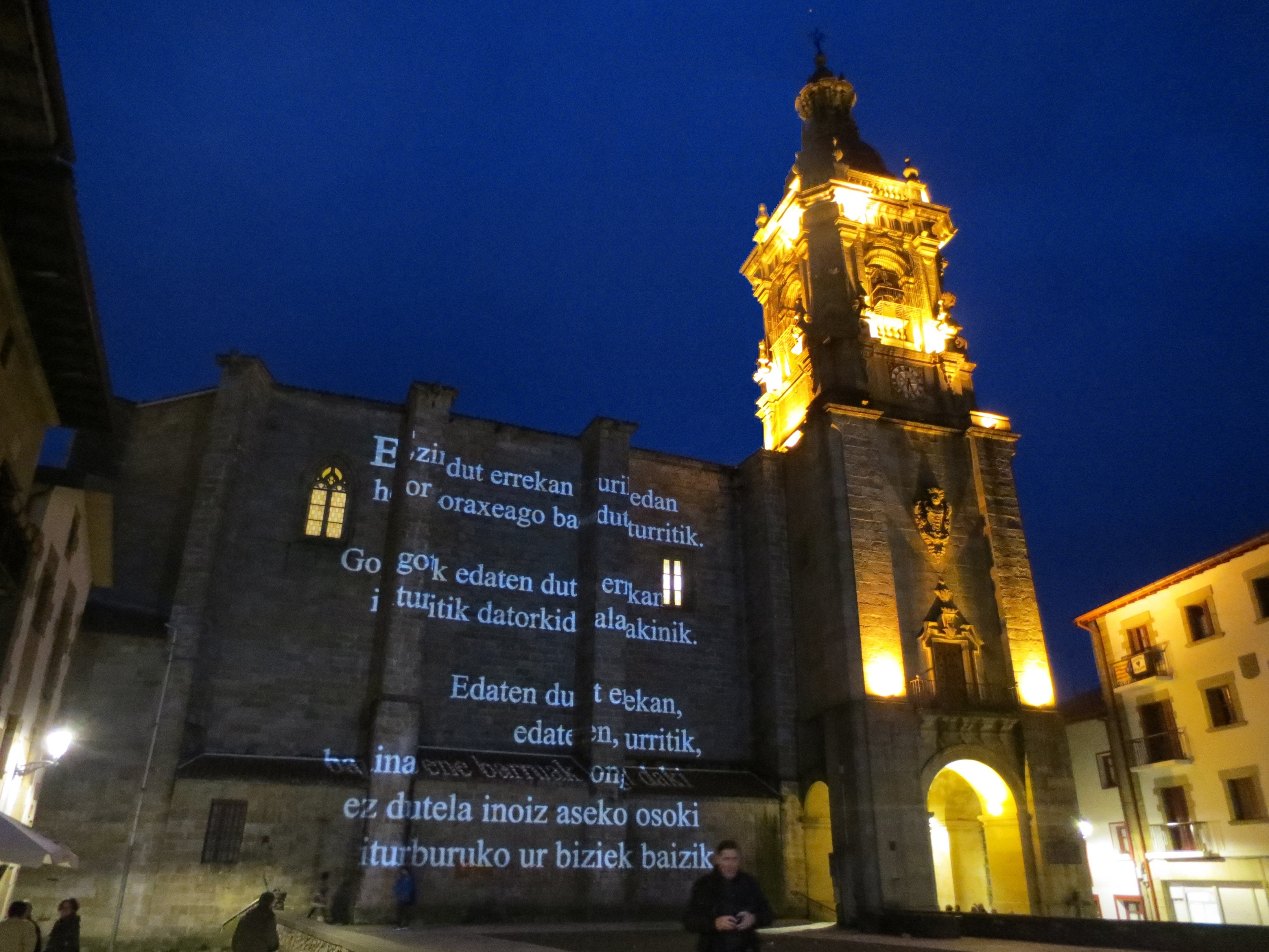 Church of Usurbil during poet Joxean Artze's funeral